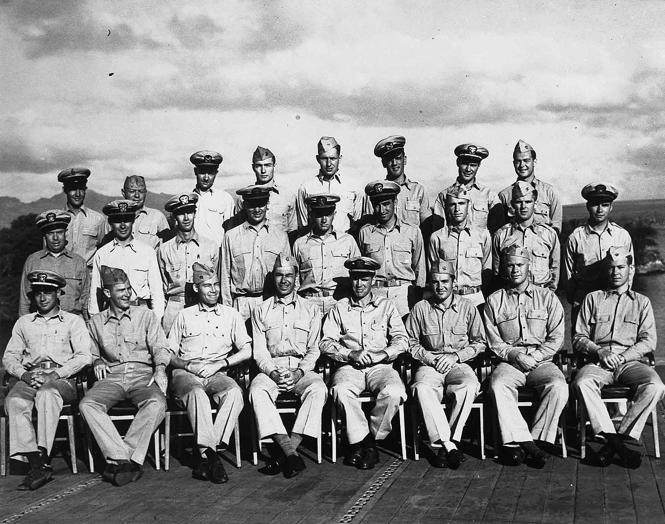 Naval Historical File Photo 80-G-173719: (Oct. 24, 1943) – Group photo of ship’s gunnery officers aboard the fast aircraft carrier USS Monterey (CVL 26). Pictured second from right in first row is Lt. Gerald R. Ford Jr., who later became the 38th President of the United States (1974-1977). Ford received his commission as an Ensign in the U.S Naval Reserve on April 13, 1942 and later participated in many actions in the Pacific aboard USS Monterey. He earned the rank of Lieutenant Commander, and was eventually released from active duty under honorable conditions in Feb. 1946. President Ford, 93, passed away on Dec. 26, 2006 at his home in Rancho Mirage, Calif. U.S. Navy photo (RELEASED)